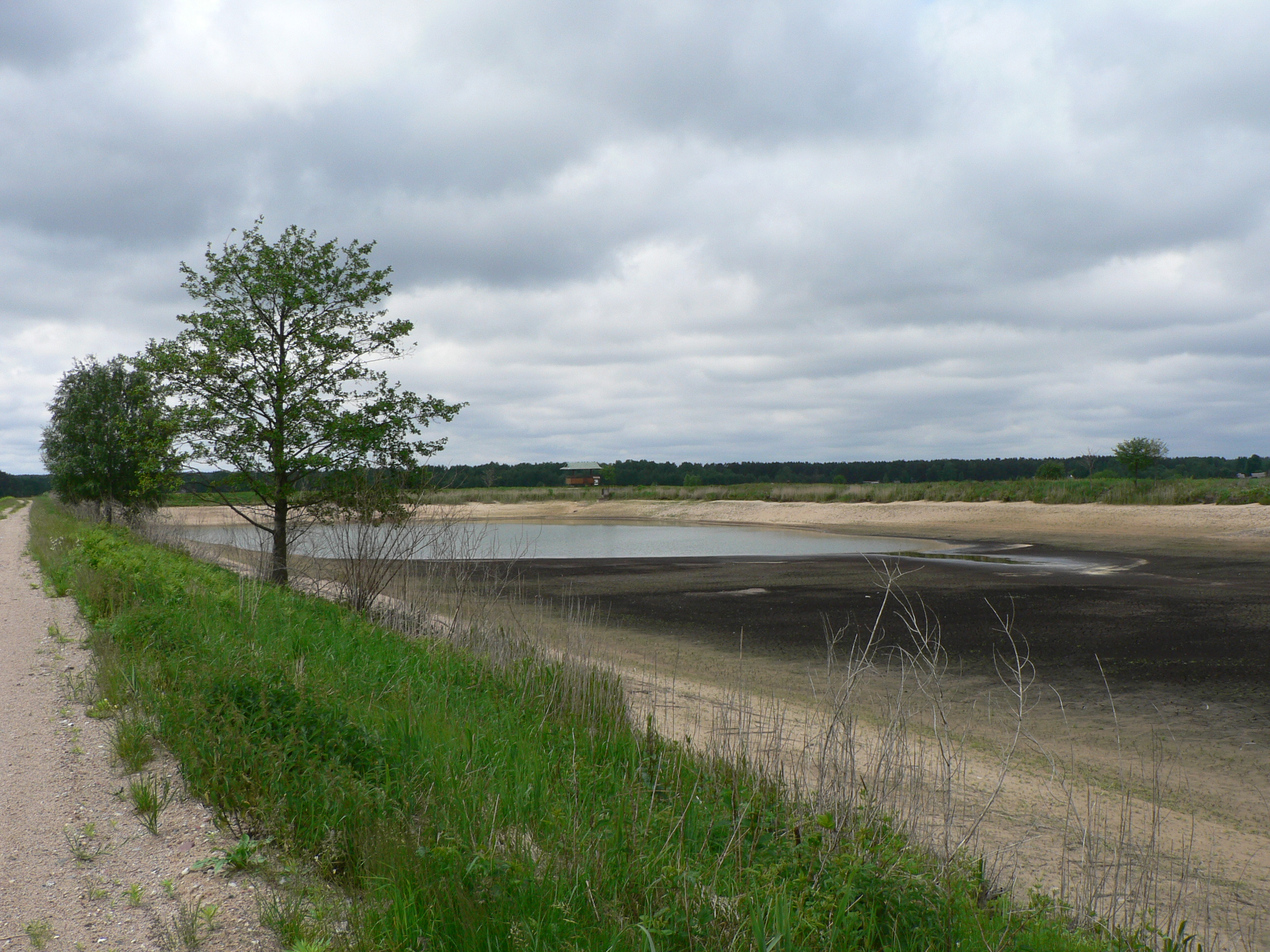 Old fish ponds in Grybaulia village, Lithuania. Author: Wojsyl, 2005